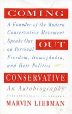 Photograph of the front cover of the book, Coming Out Conservative, by Marvin Liebman. Copyright reverted to him in 1994; it was inherited by Bart and Steven Lidofsky in 1997. Uploaded by Bart Lidofsky.